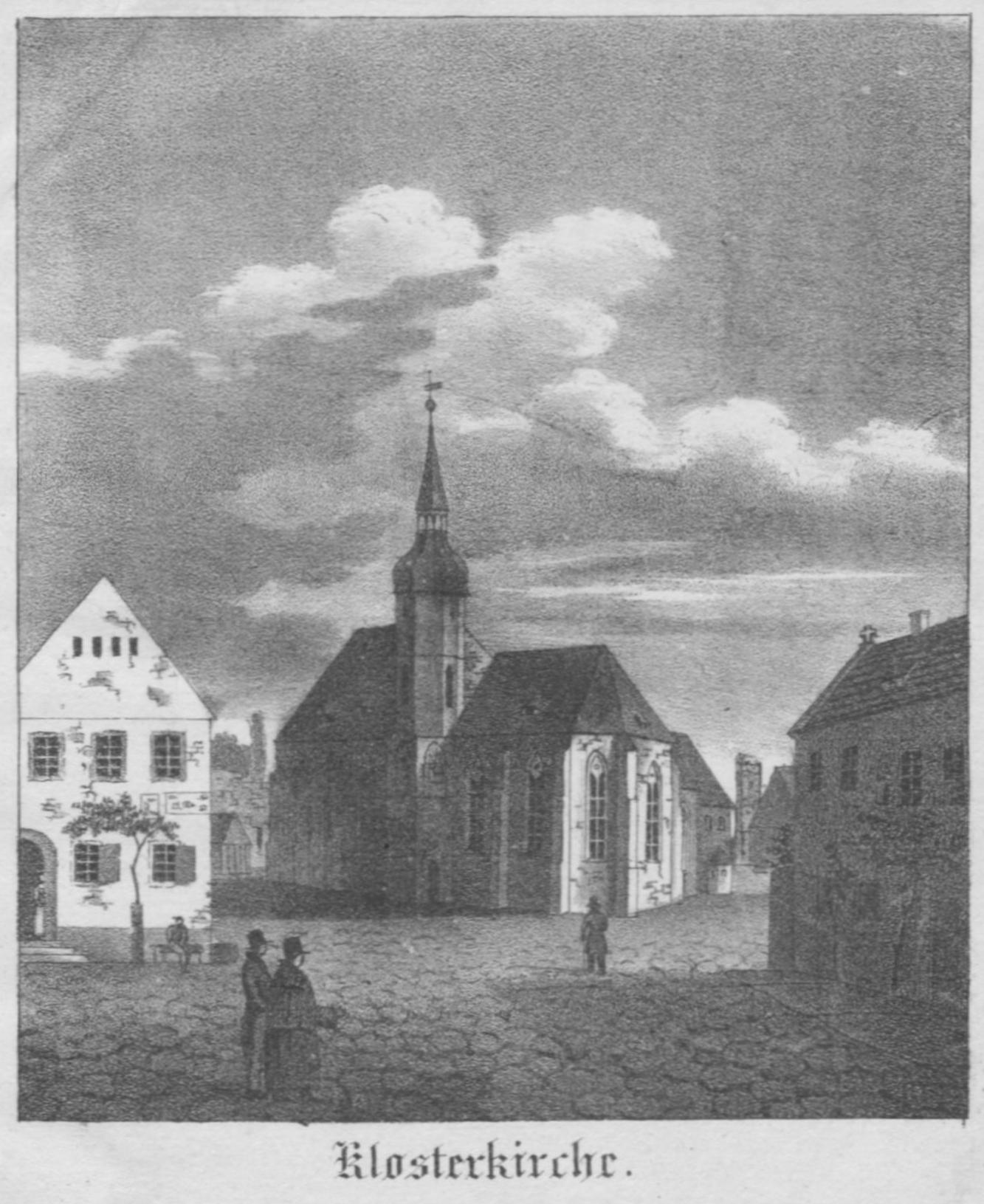 This is a scan of the historical document: Titel: Sachsens Kirchen-Galerie Band 3 Vierte Abteilung: Die Inspection Oschatz 1840